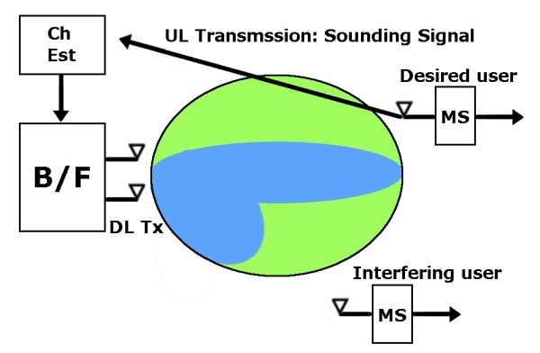 Beamforming is a signal processing technique used in sensor arrays for directional signal transmission or reception. This spatial selectivity is achieved by using adaptive or fixed receive/transmit beampatterns. The improvement compared with an omnidirectional reception/transmission is known as the receive/transmit gain (or loss).